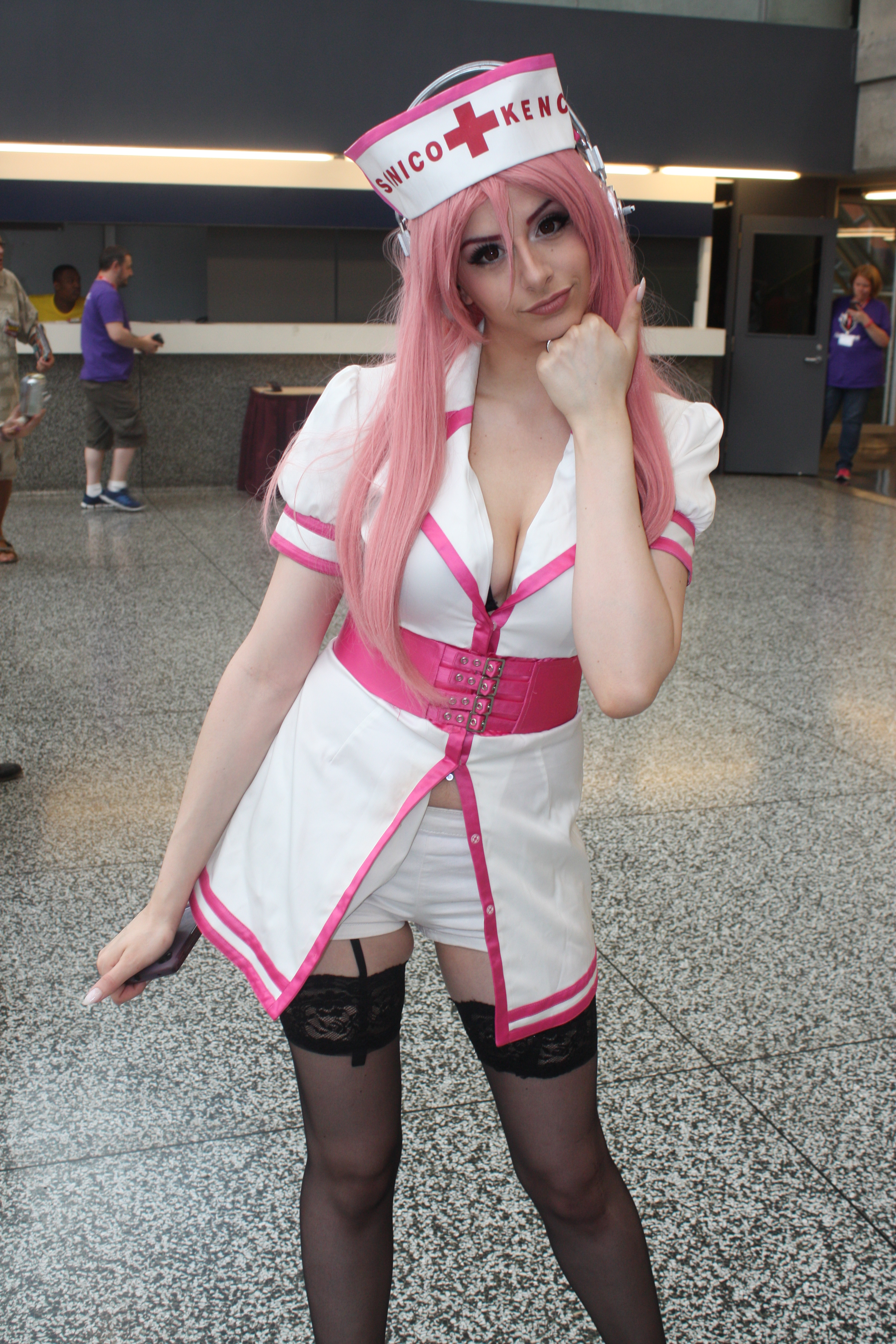 Cosplay on day three of Montreal Comiccon 2015.